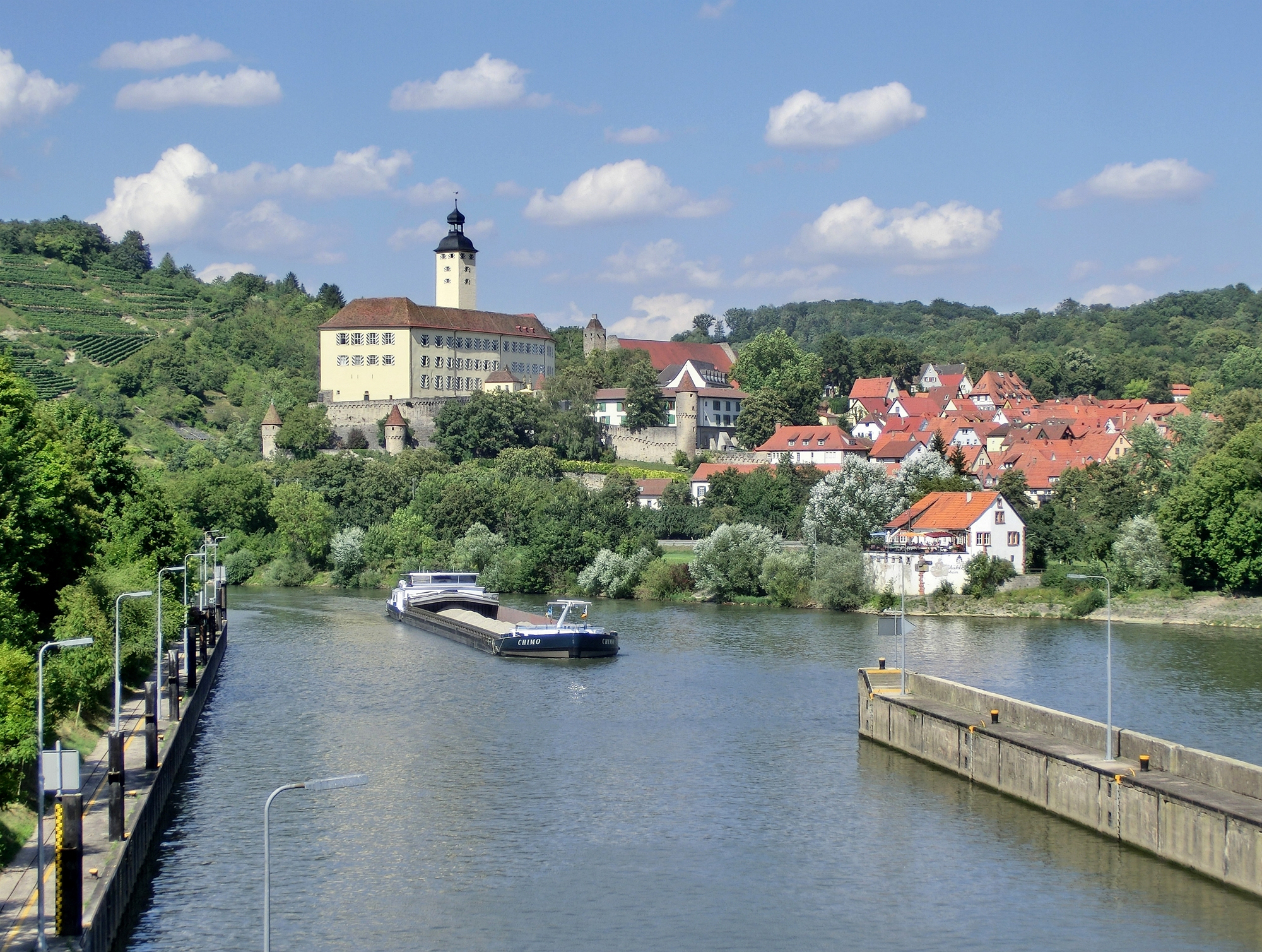 View of Gundelsheim, Baden-Württemberg.